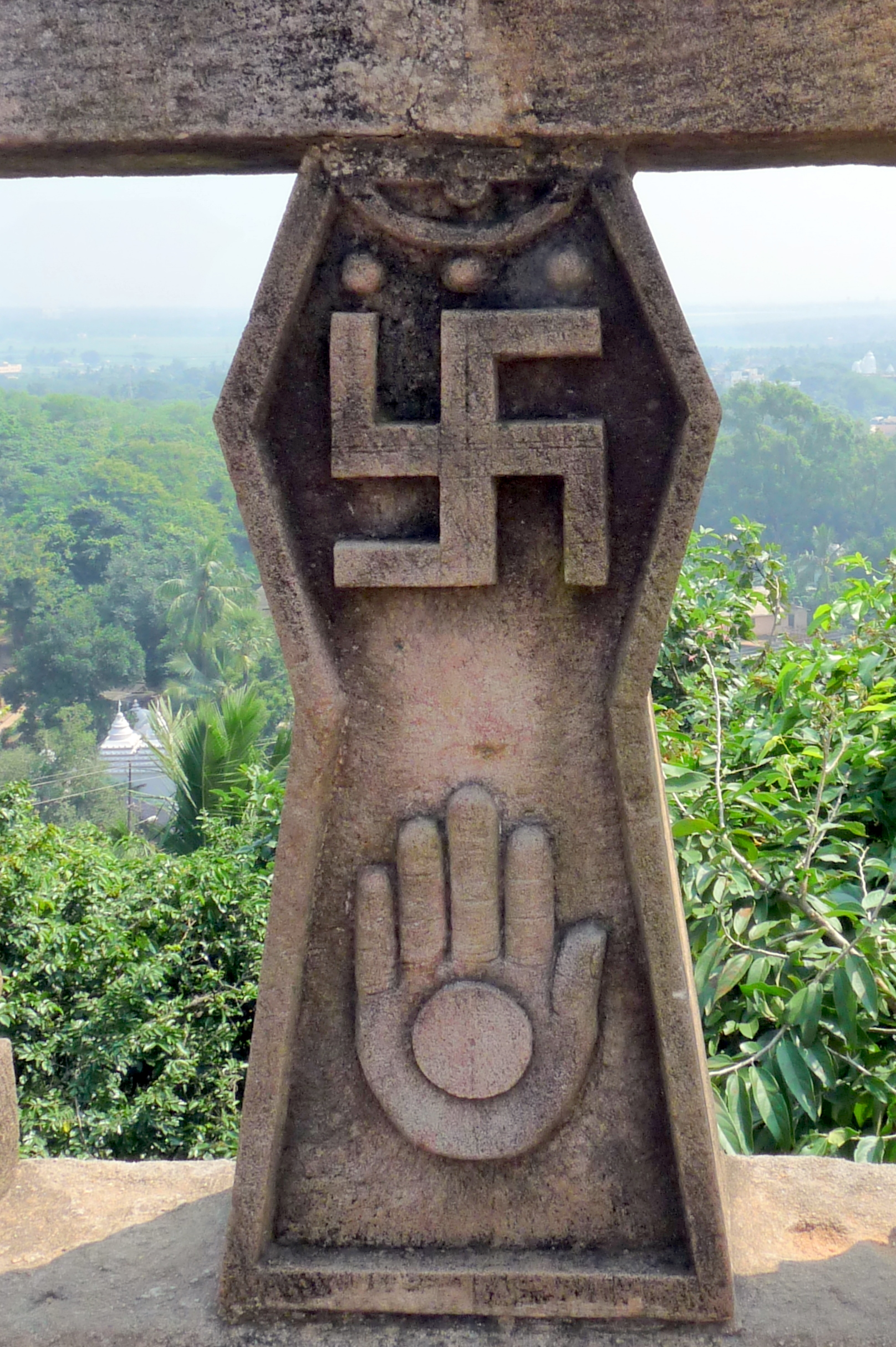 Udaygiri & Khandagiri Caves, Bhubaneswar Swastika and Jain hand symbolizing the importance of ahimsa